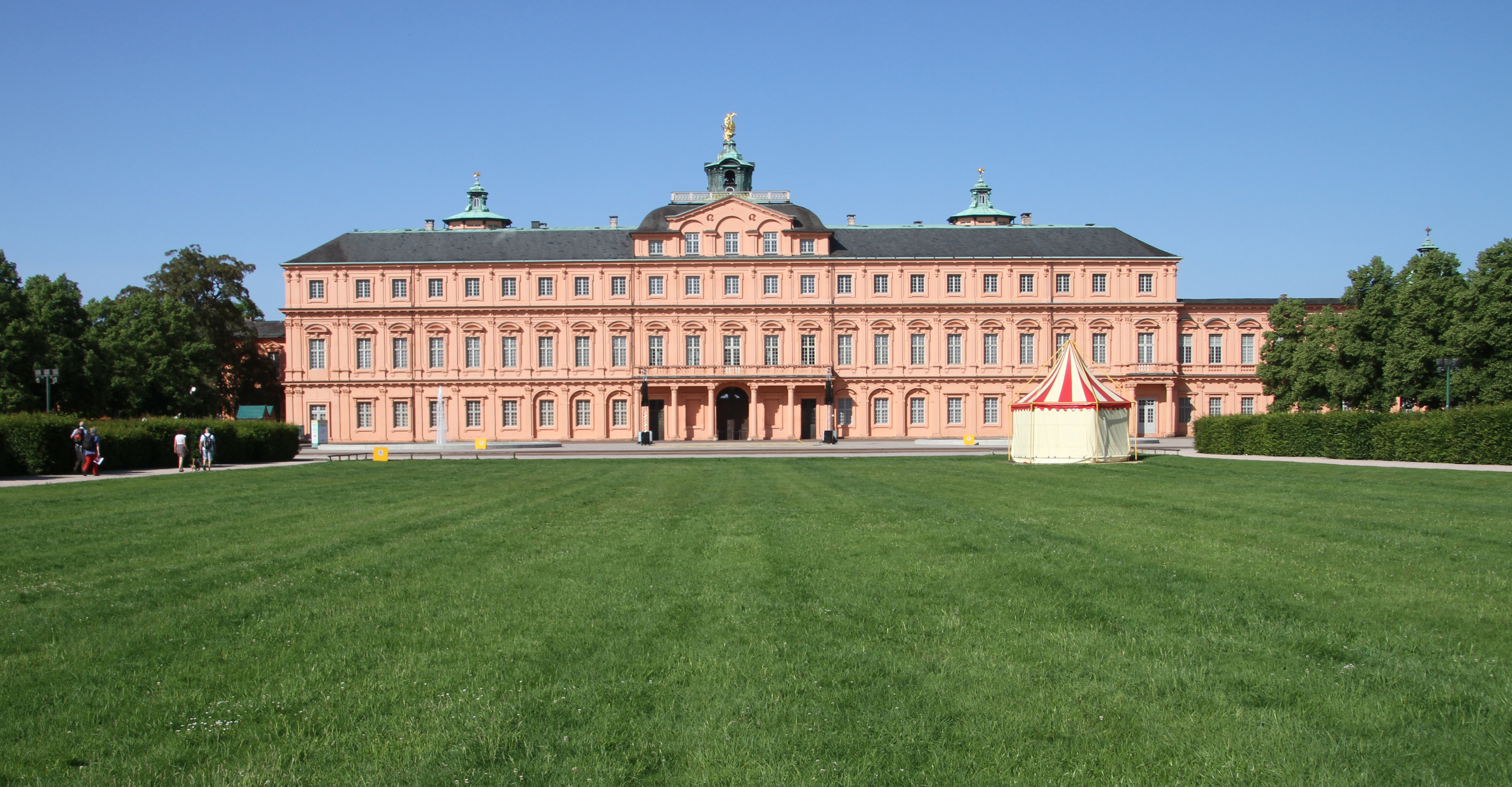 Park side of Schloss Rastatt.